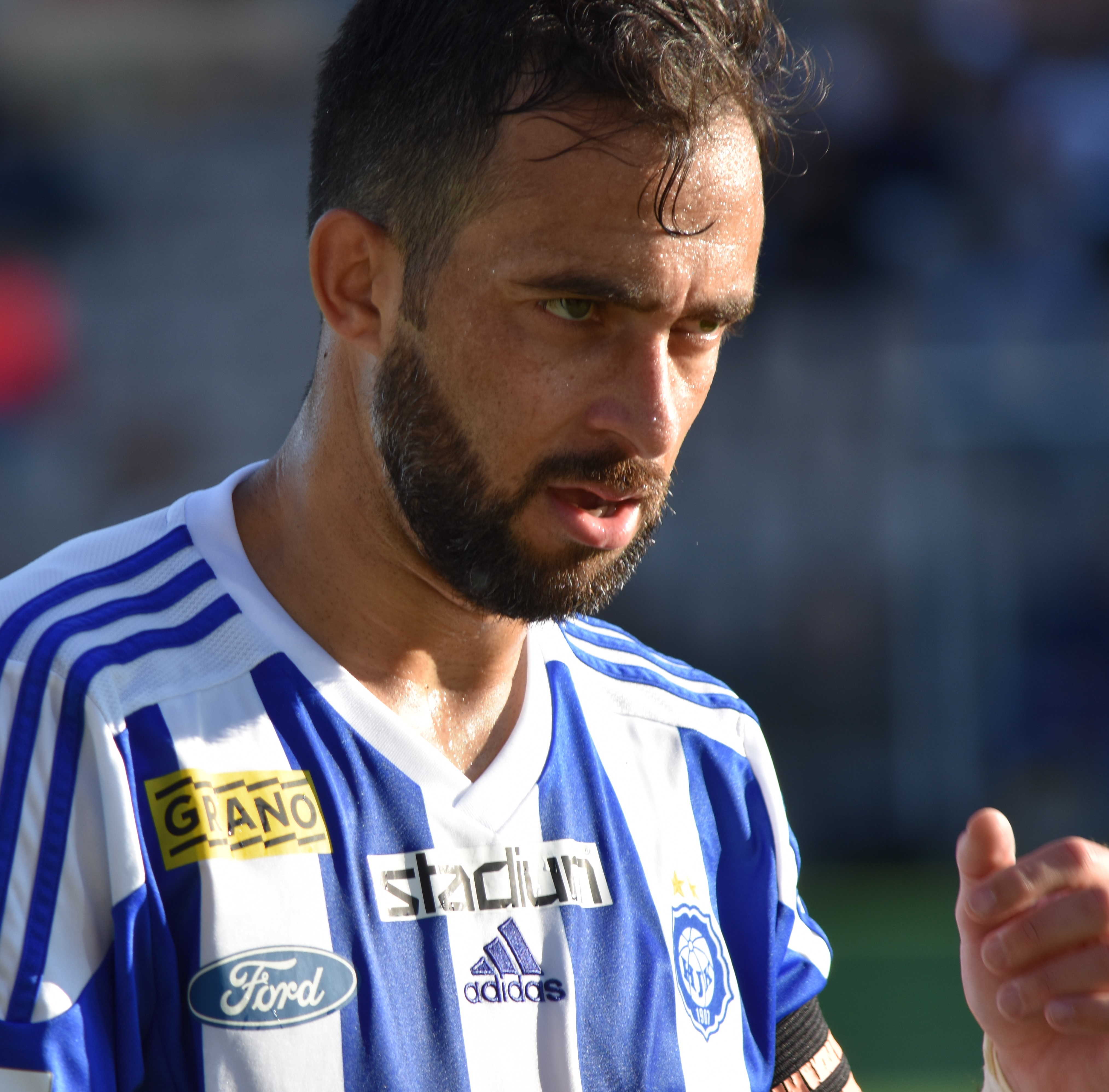 Association football player Rafinha (HJK)